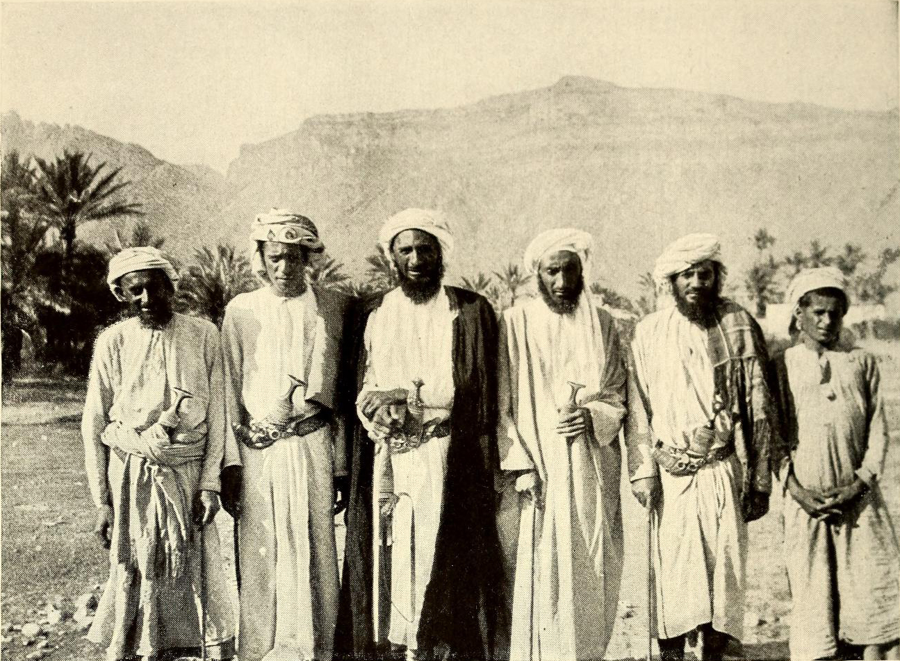 Photo of 6 men from Socotra taken by Charles K. Moser